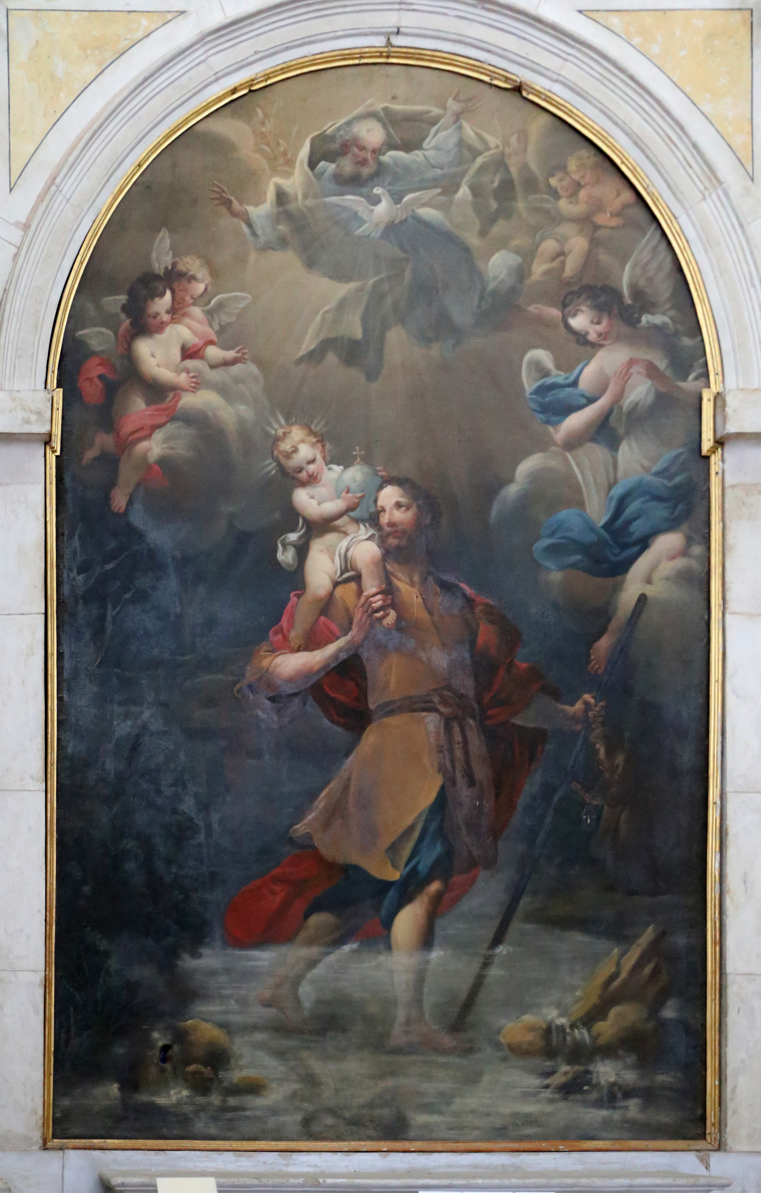 Sant'Agostino (Siena) - Interior